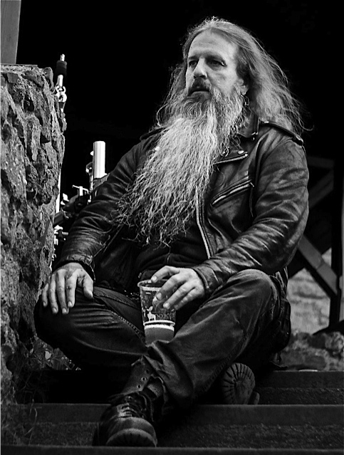 Live in the Czech Republic